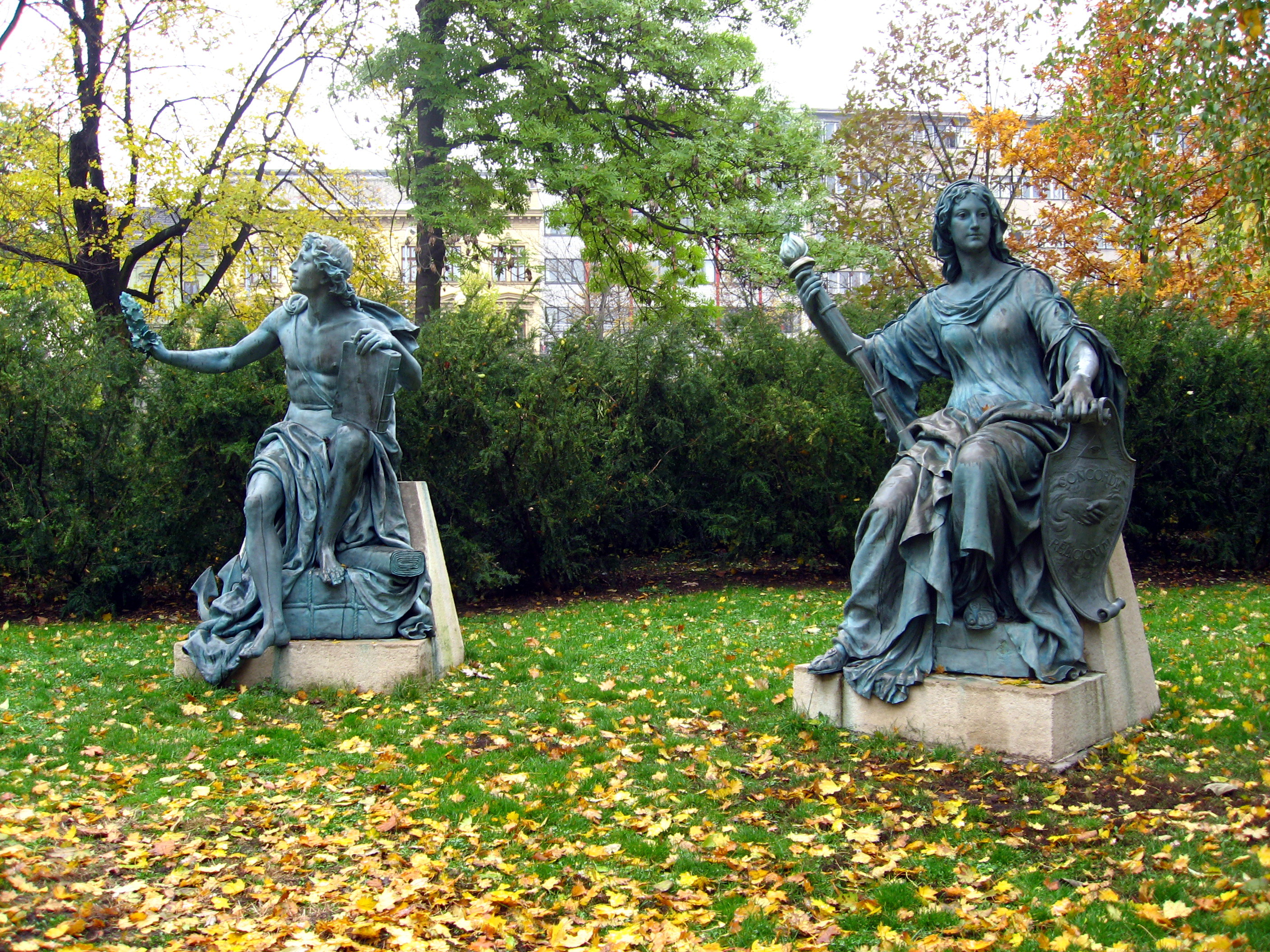 Sculptures Trade (male) and Tolerance (female), Brno-Lužánky. Sculptures were part of the former monument of Joseph II. Now they are in Lužánky Park. The sculptures were created in 1892 by Josef Břenek.